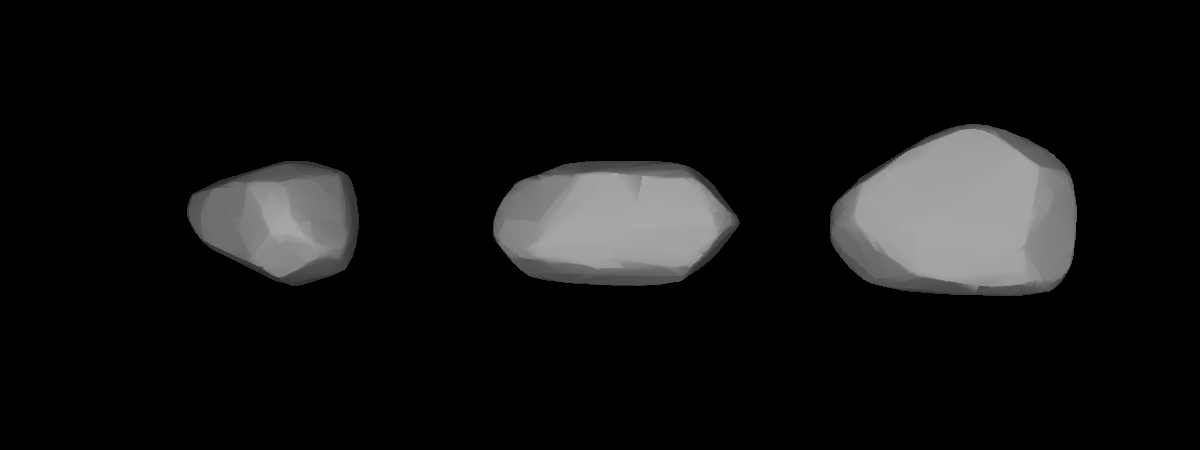 A three-dimensional model of 2957 Tatsuo that was computed using light curve inversion techniques.